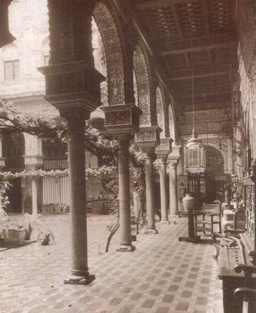 Courtyard in the Palacio de Sánchez Dalp.